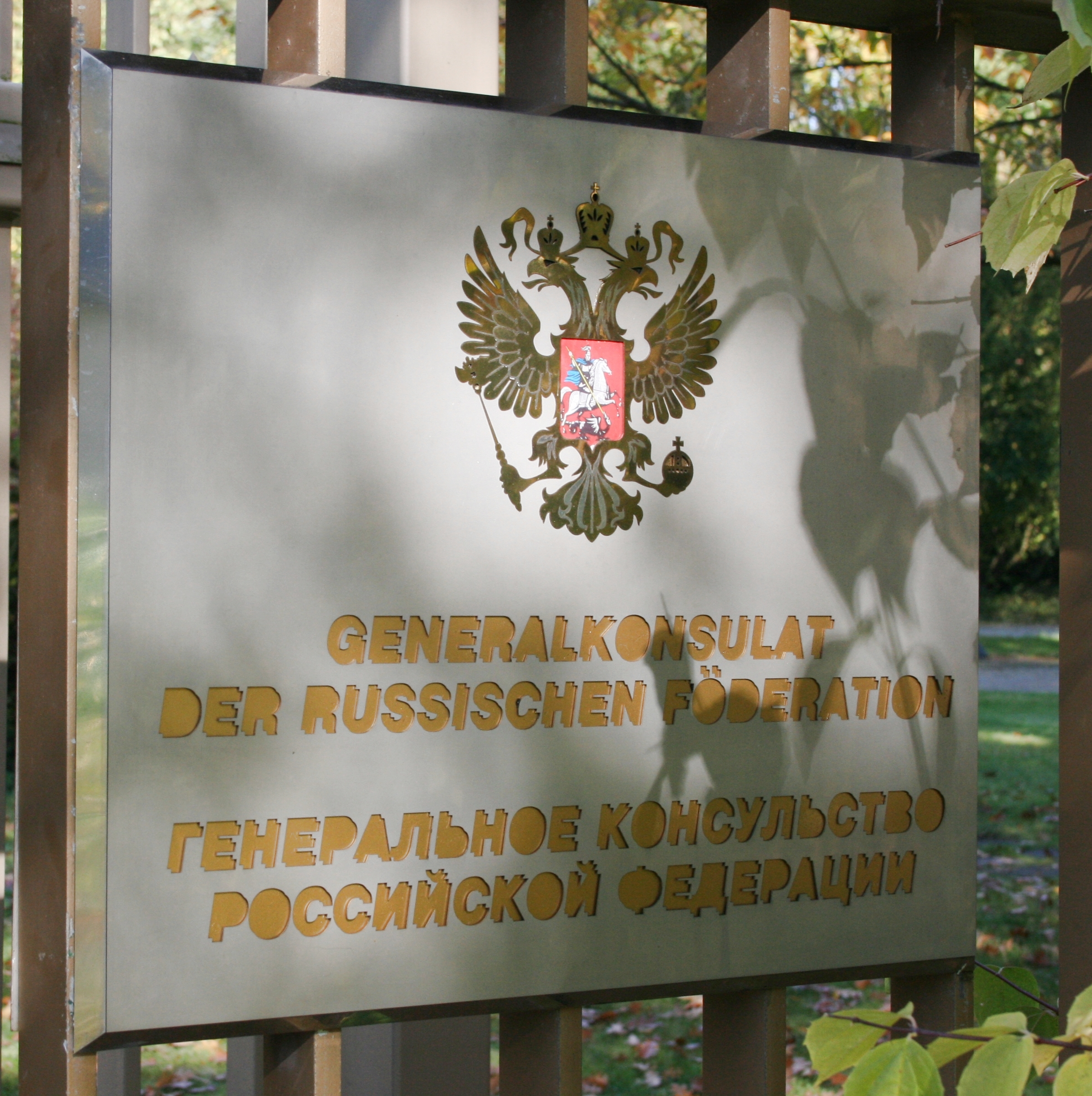 Sign at the entrance gate of the Consulate General of the Russian Federation in Bonn/Germany. The area is located on "Viktorshöhe", a height in Bonn-Bad Godesberg, area Schweinheim (53177 Bonn, Waldstrasse 42). 1949/1950 there was the official residence of the first President of the Federal Republic of Germany, Theodor Heuss. From 1976 to 1991 the area was used by the Soviet (and from 1991 to 1999, Russian) Embassy.Meanwhile (November 2015) the sign was replaced.